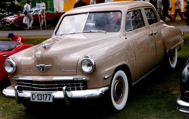 Studebaker Champion 4-Dr. Sedan. It appears to be a 1949.